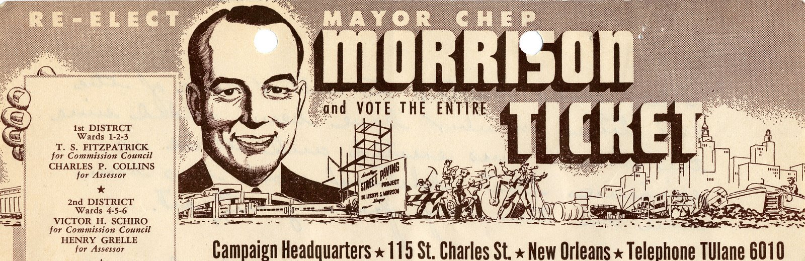 New Orleans, 1950: Advertisement for re-election of mayor Chep Morrison and support of his ticket of candidates.